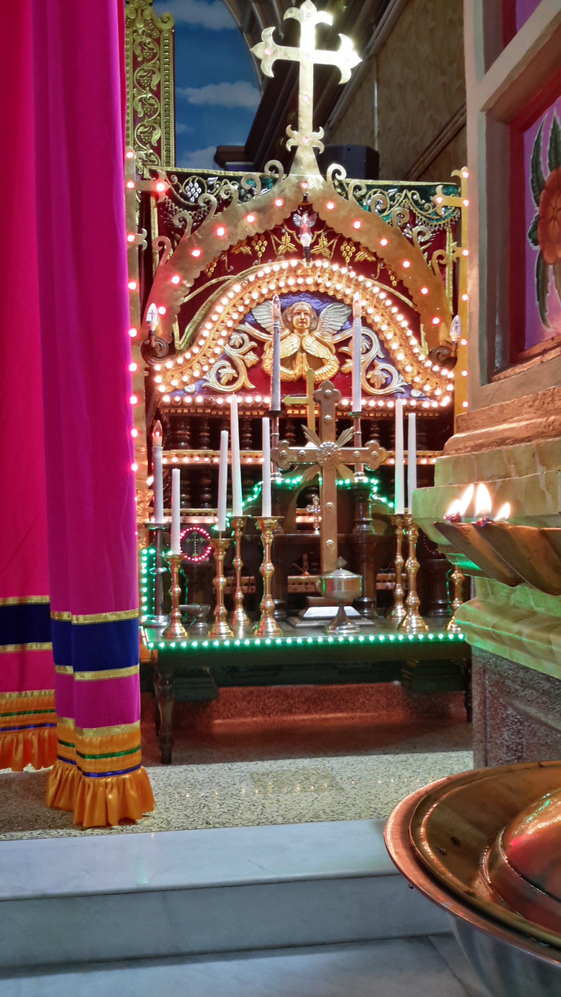 Tomb of Beselios Yeldo @ Kothamangalam Marthoman Cheriapally